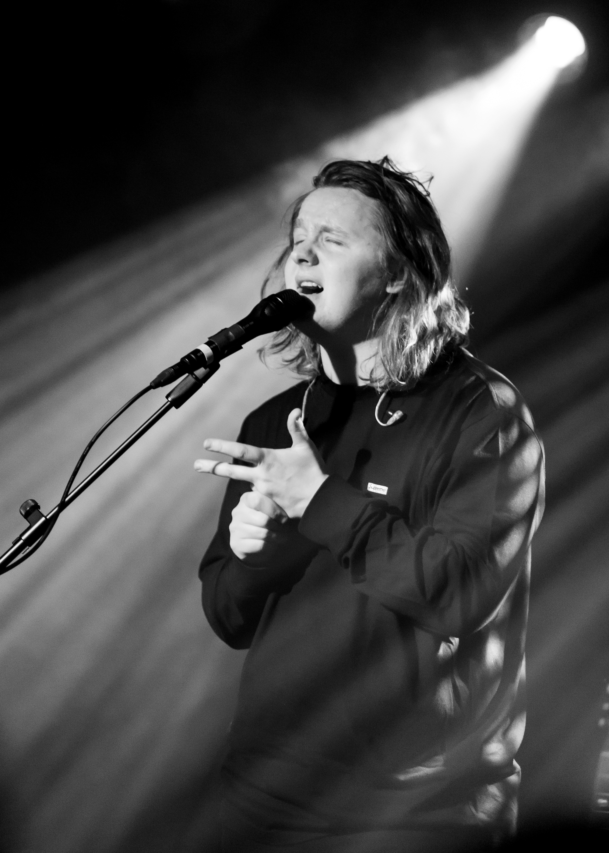 Lewis Capaldi performing live at the Moroccan Lounge in Los Angeles, California, on Friday, January 5, 2018.